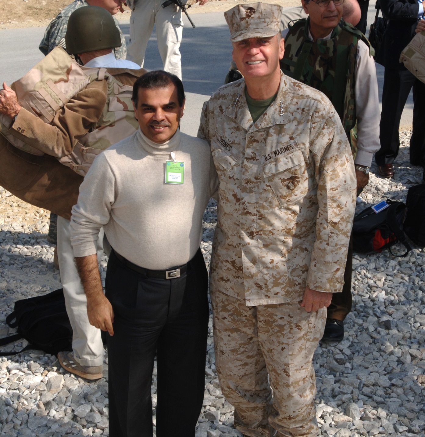 Mansoor Ijaz & Gen. James Jones, Oct. 2006 ISAF Mission